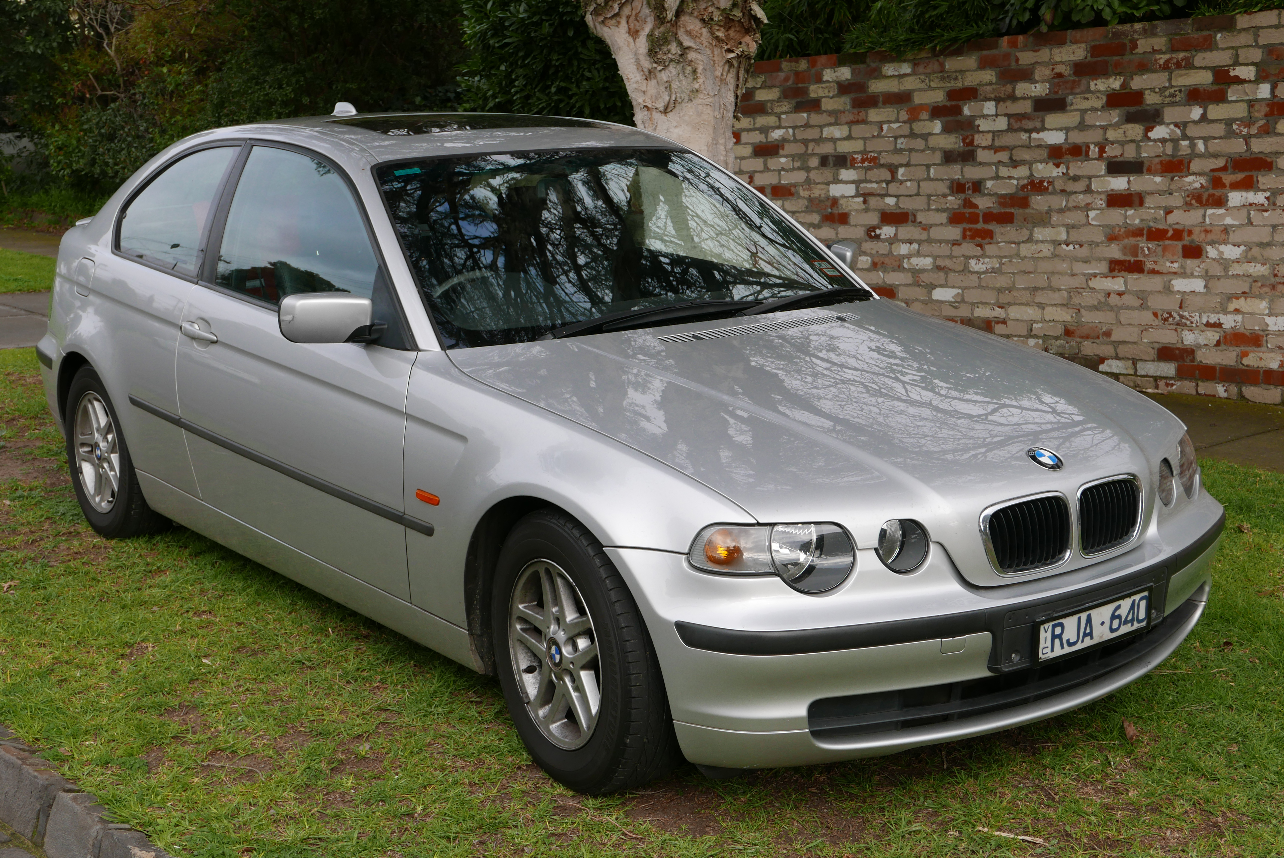 2001 BMW 316ti (E46) hatchback. Photographed in Kew, Victoria, Australia. Vehicle registration enquiry resultsJurisdictionVictoriaRegistrationRJA640Chassis codeWBAAT52070AF67919Engine codeA592G581Compliance date2002-01Year of manufacture2001